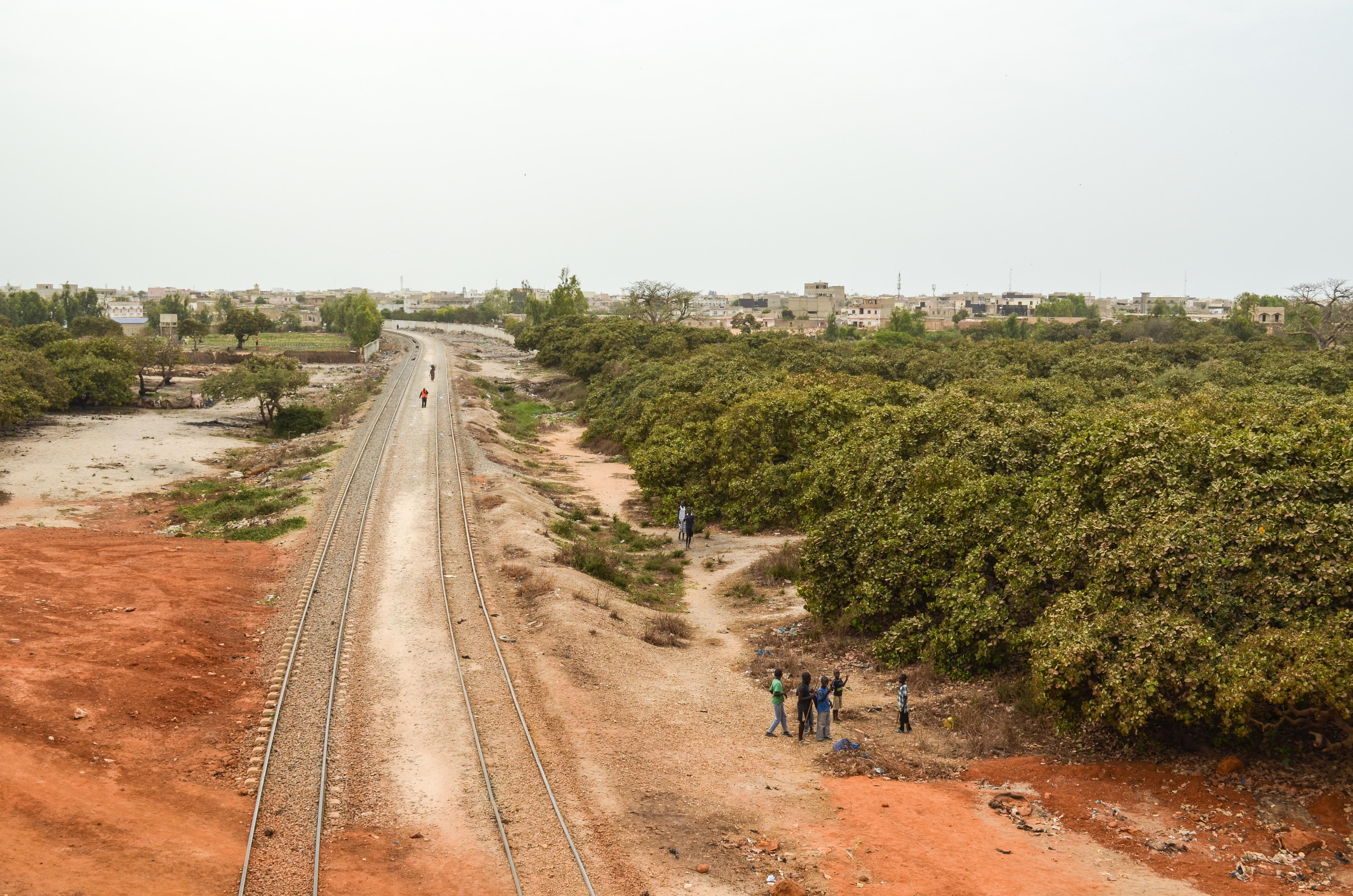 The Dakar-Niger railway near Thiaroye, Dakar, Senegal.